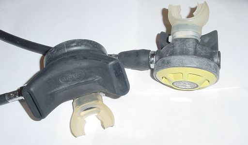 I made this photo